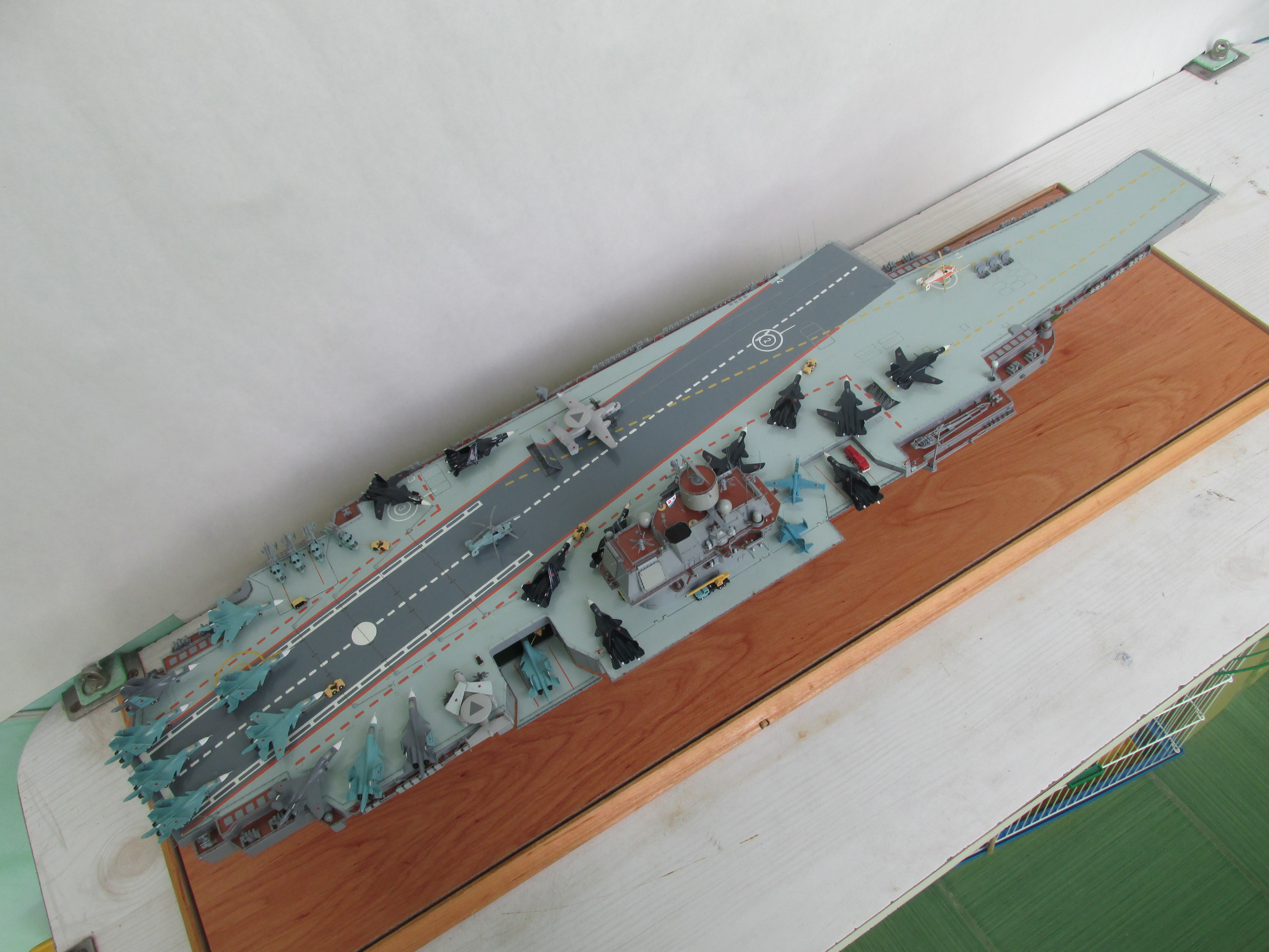 Г. Николаев (Украина)